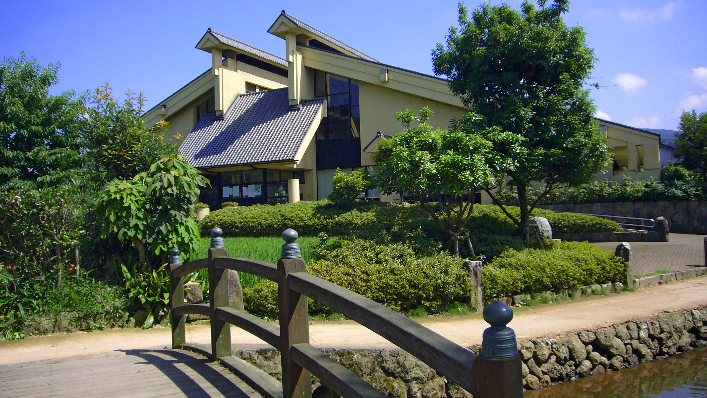 Kato Buntaro Memorial Library in Shinonsen, Hyogo prefecture, Japan